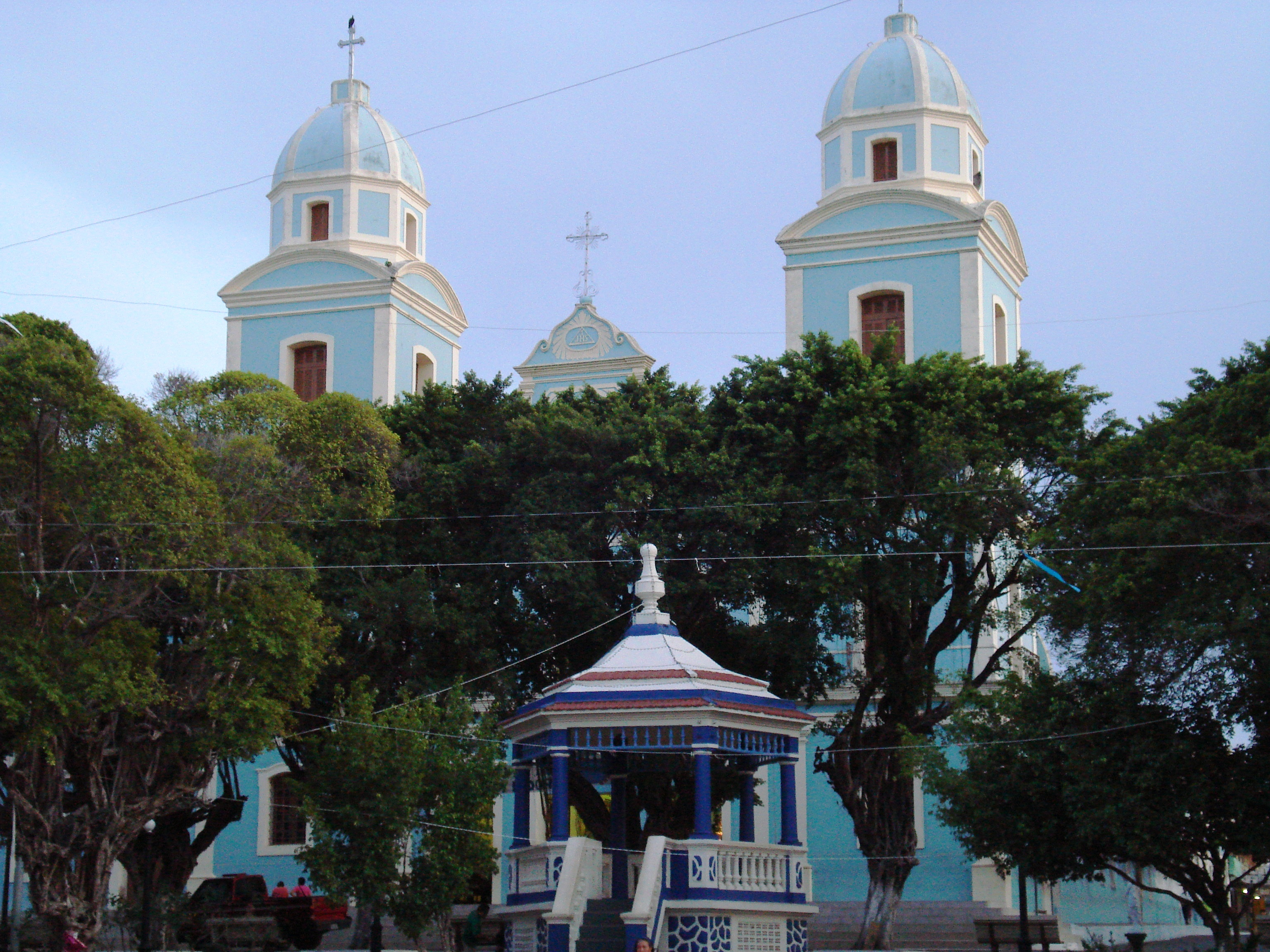 Cathedral of Santárem, Pará, Brazil